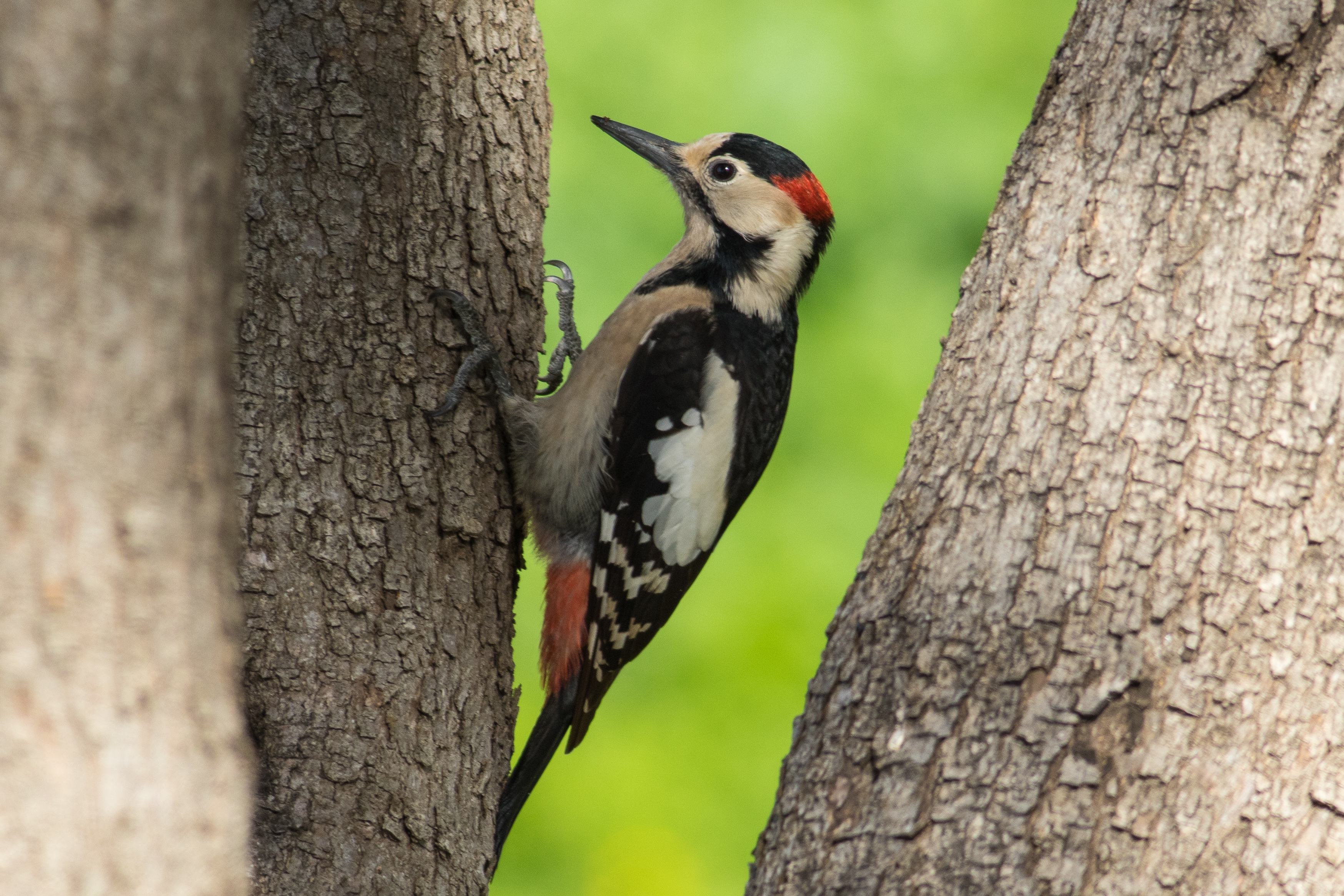 Dendrocopos syriacus, Ashkelon National Park, Israel.